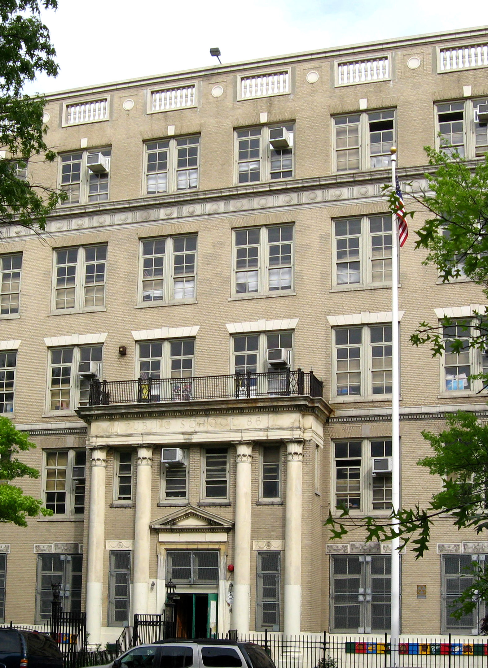 Looking east across Reservoir Avenue at PS 86 in Kingsbridge Heights, Bronx